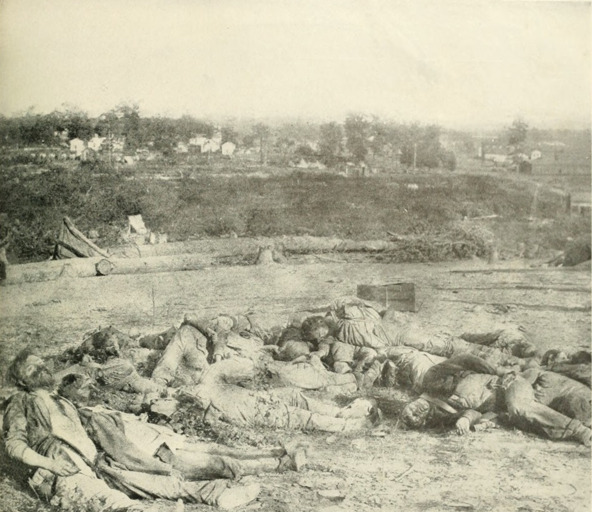 Confederate dead lay gathered at the bottom of the parapet of Battery Robinett on the day after the Battle of Corinth. Col. William P. Rogers of the 2nd Texas (on the very left) seized his colors to keep them from falling again and jumped a five foot ditch, leaving his dying horse and assaulted the ramparts of the battery. When canister shot killed him, he was the fifth color bearer to fall that day. Note: This text erroneously reports that his second-in-command, Col. Lawrence Ross lays beside him. In fact, Ross went on to become a general and later the governor of Texas. He died in 1898.